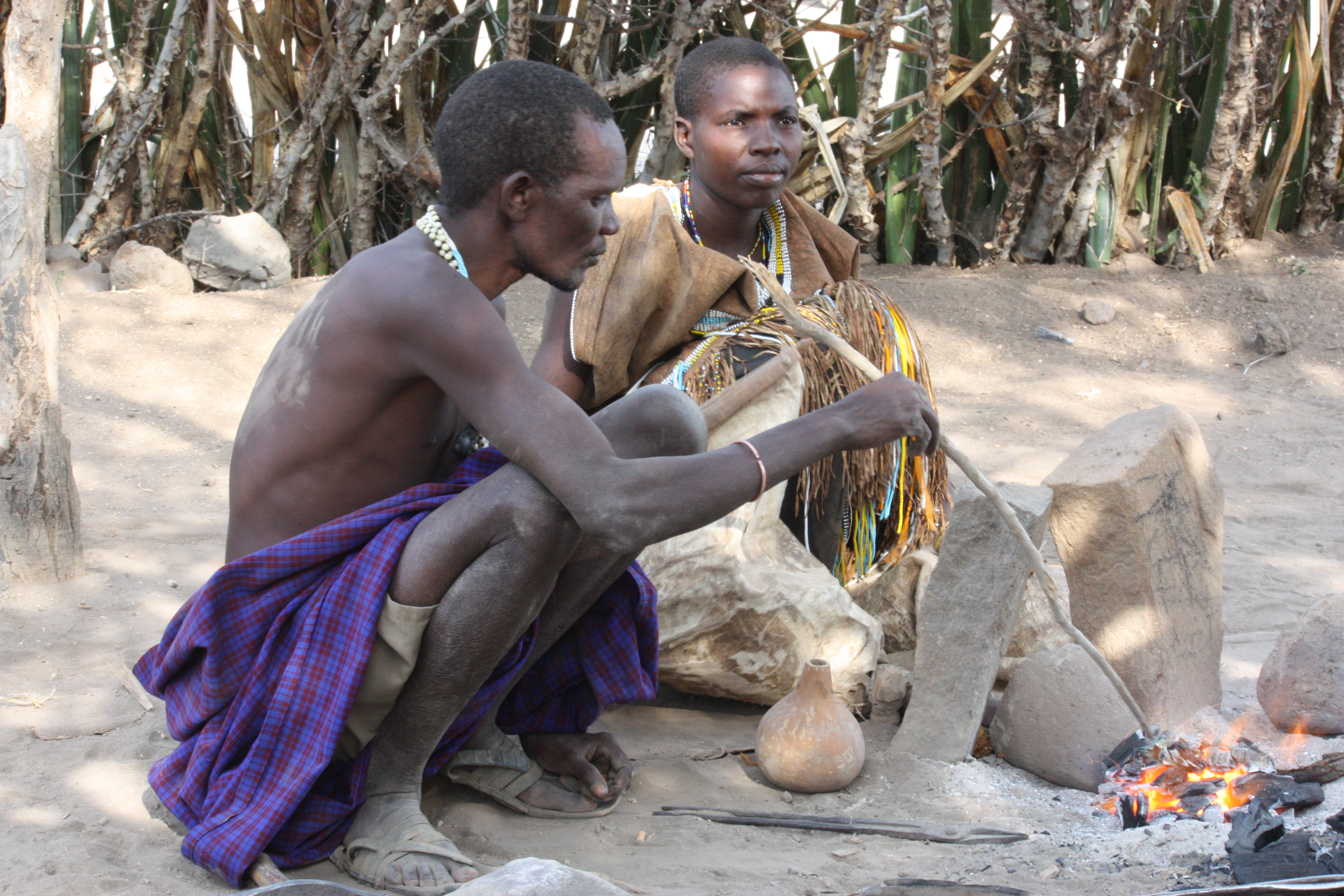 Making jewelry - datoga tribe near the Lake Eyasi, Tanzania